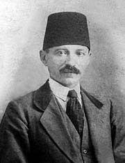 Ragip Bey (Yoğun)